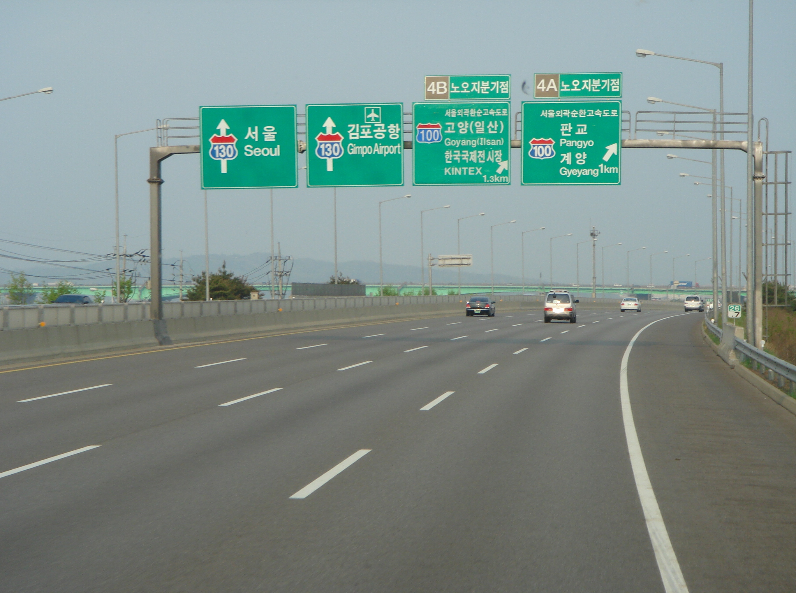 Nooji JCT IncheonInternationalAirportExpressWay INCHEON KOREA